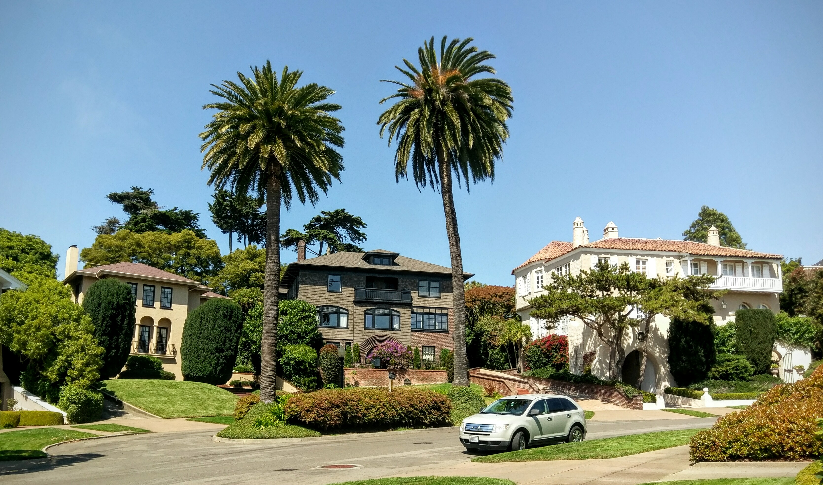 Three homes on Presidio Terrace in San Francisco. Photo by Jim Heaphy.